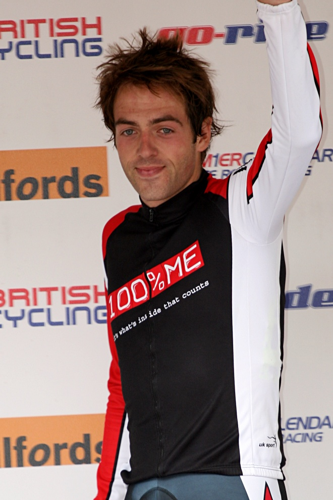 Alex Dowsett after winning the 2009 Richmond Grand Prix cycle race.